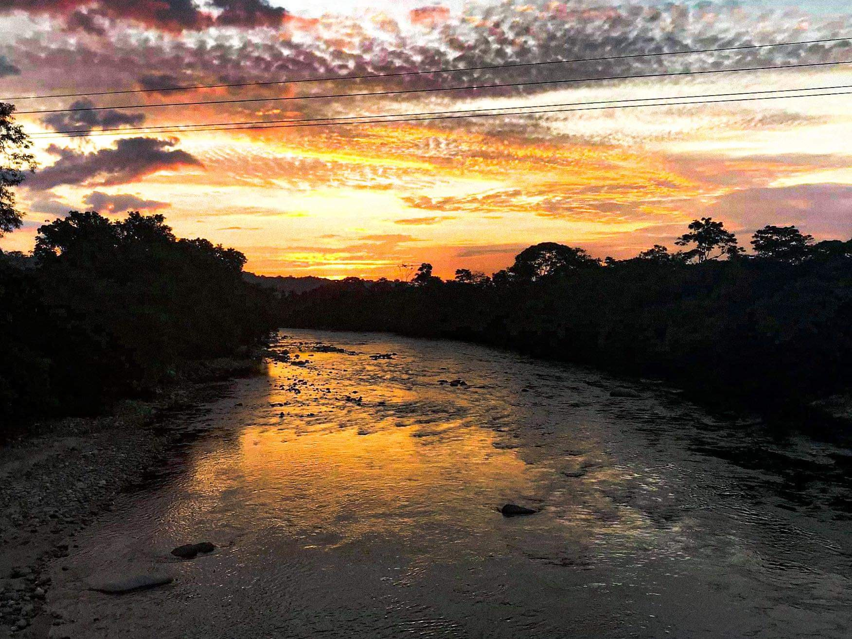 Atardecer en el río Orito.